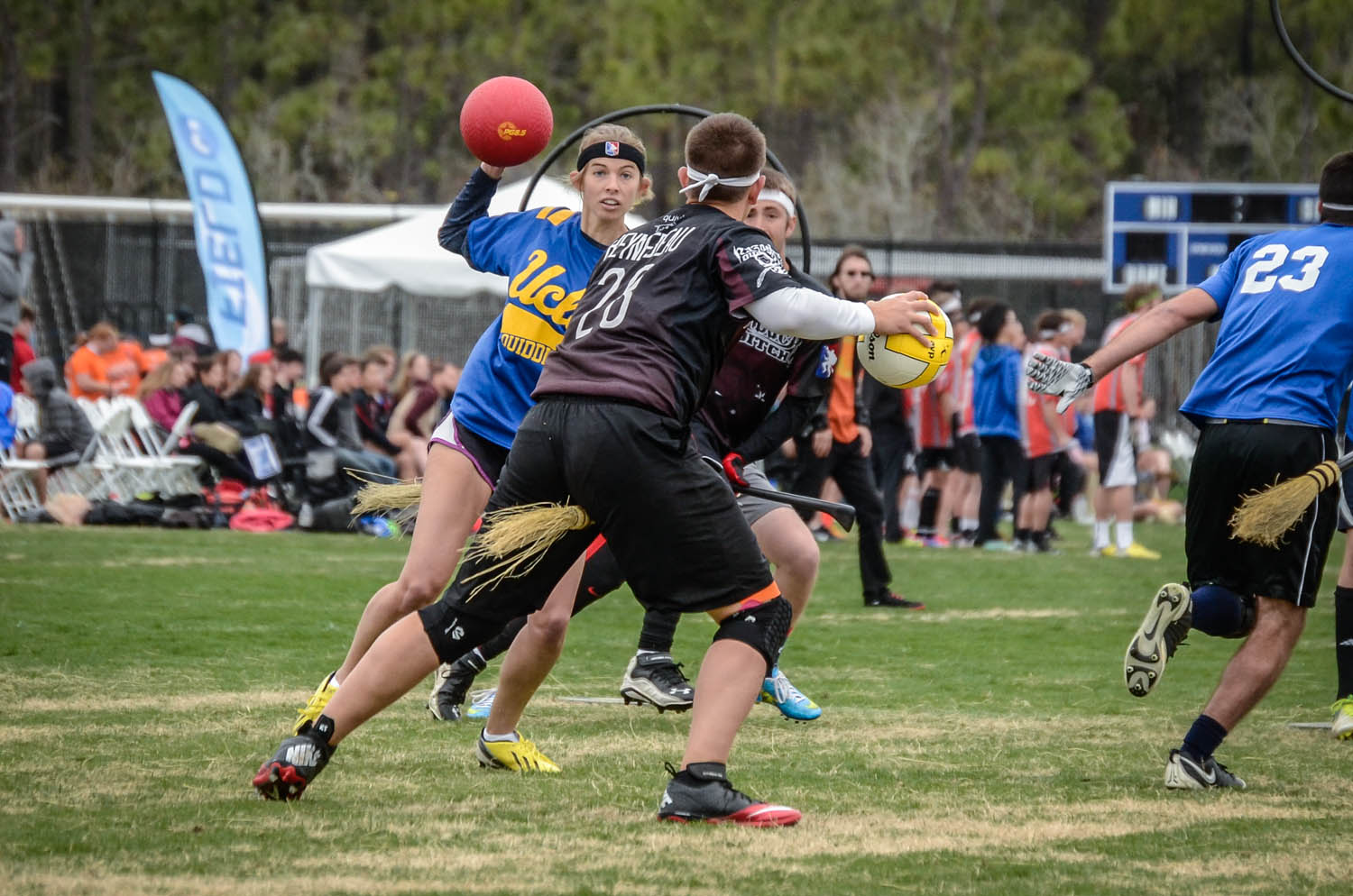 UCLA vs Arkansas at the Quidditch World Cup 7 on April 6th 2014 in North Myrtle Beach, South Carolina.